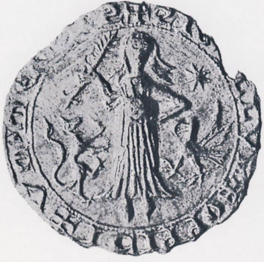 Seal City of Ommen 16th century